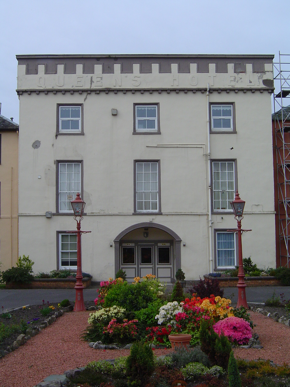 Baths Inn (later the Queen's Hotel; today Queen's Court)